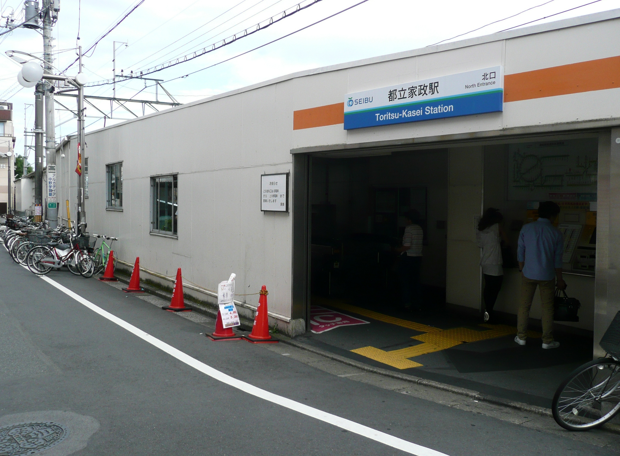 North Entrance of Toritsu-Kasei Station